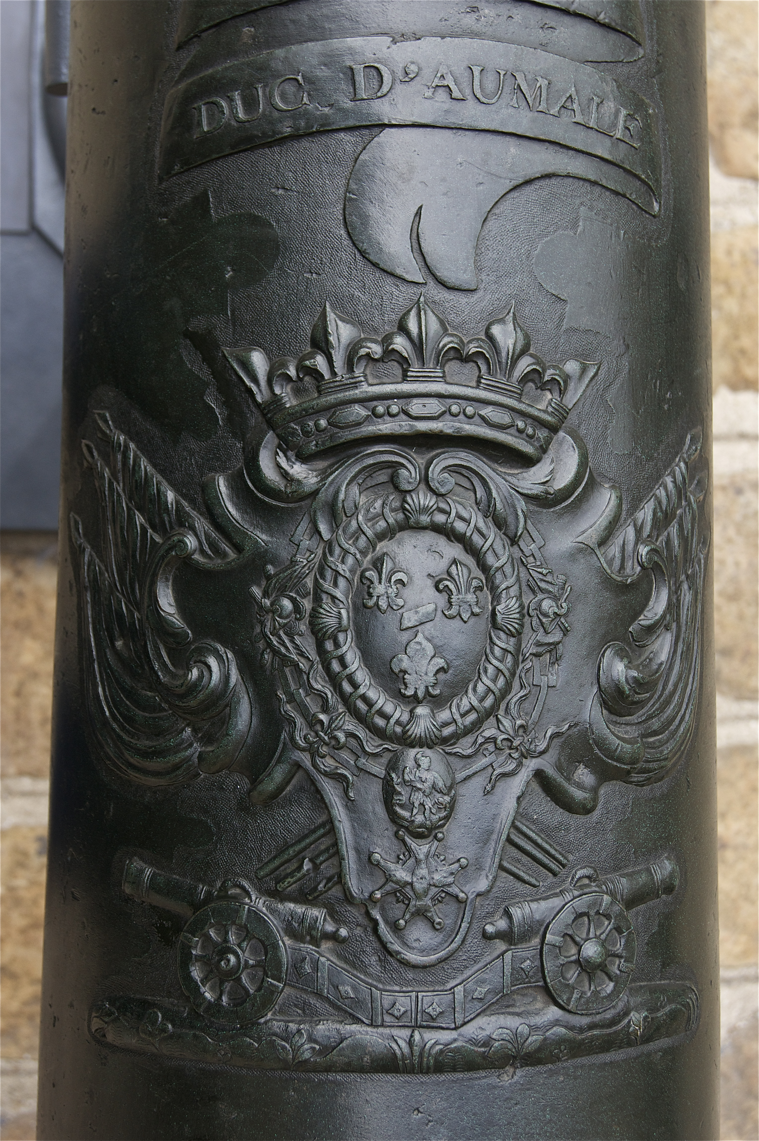 on a bronze french cannon, the relief of coat of arms of Prince Louis-Charles de Bourbon (1701-1775), Count of Eu, Duke of Aumale, last Grand Master of the Artillery of France, General-colonel of the Suisses & the Grisons. Honor Courtyard of Invalides, Paris